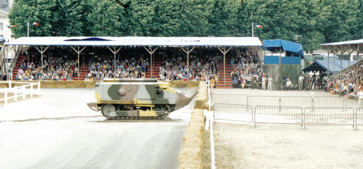 The last surviving Schneider CA tank, the oldest still running tank in the world, participates in the Saumur Carroussel.